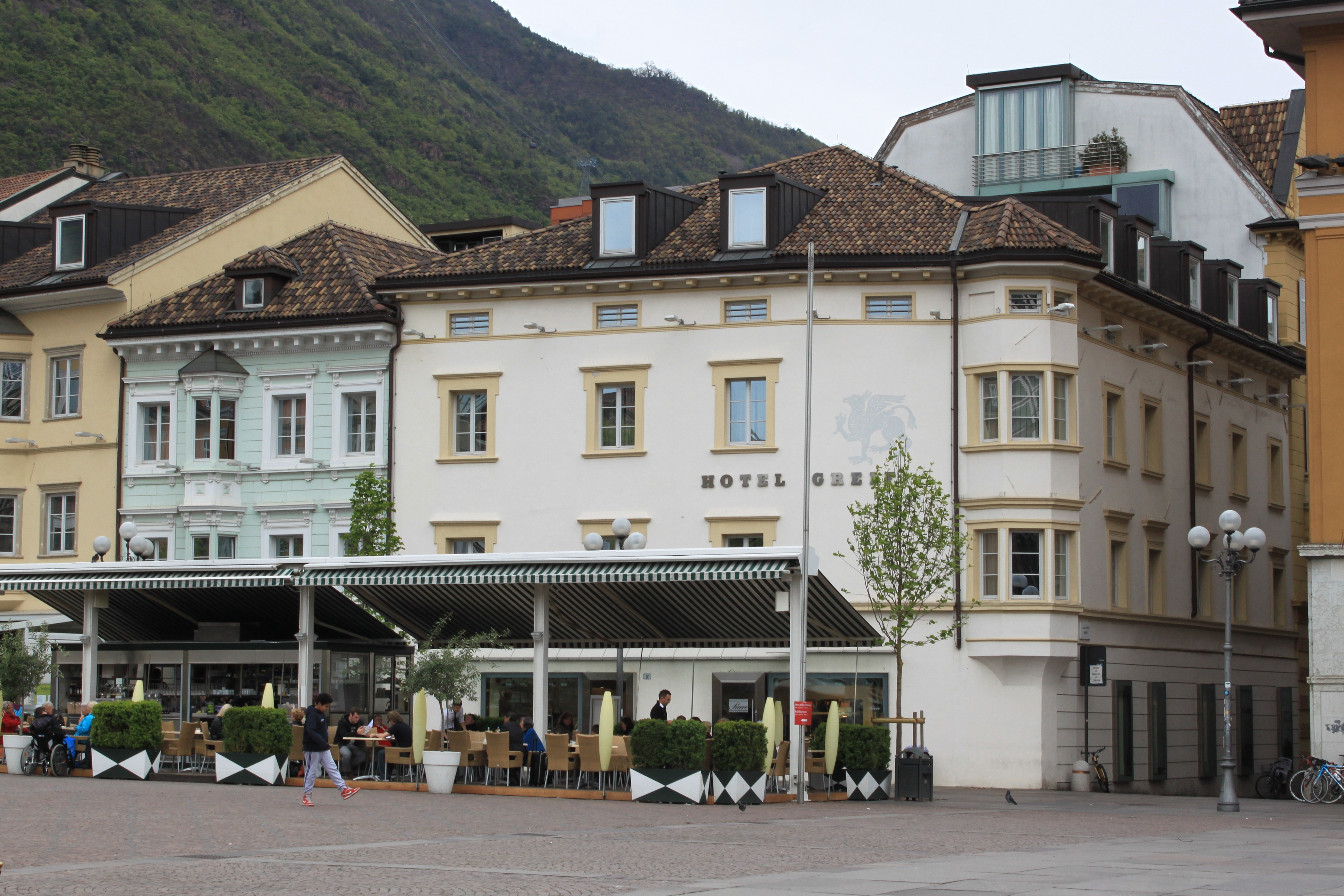 Hotel Greif Waltherplatz in Bozen Bolzano South Tyrol